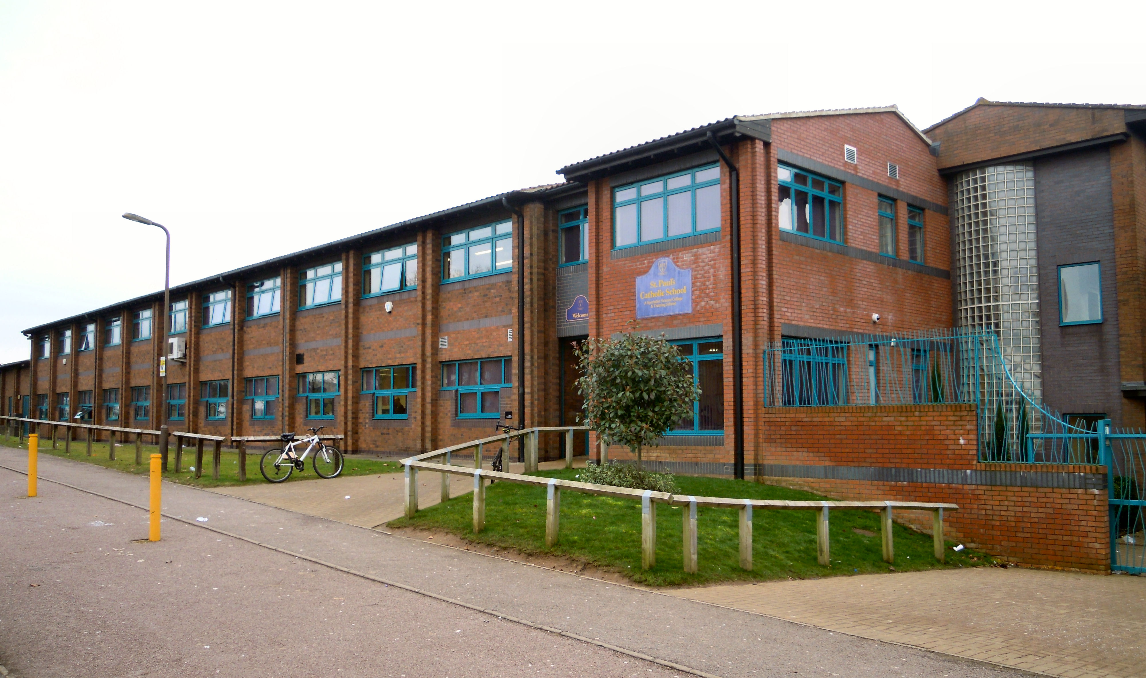 The main entrance to St Paul's Catholic School, Milton Keynes